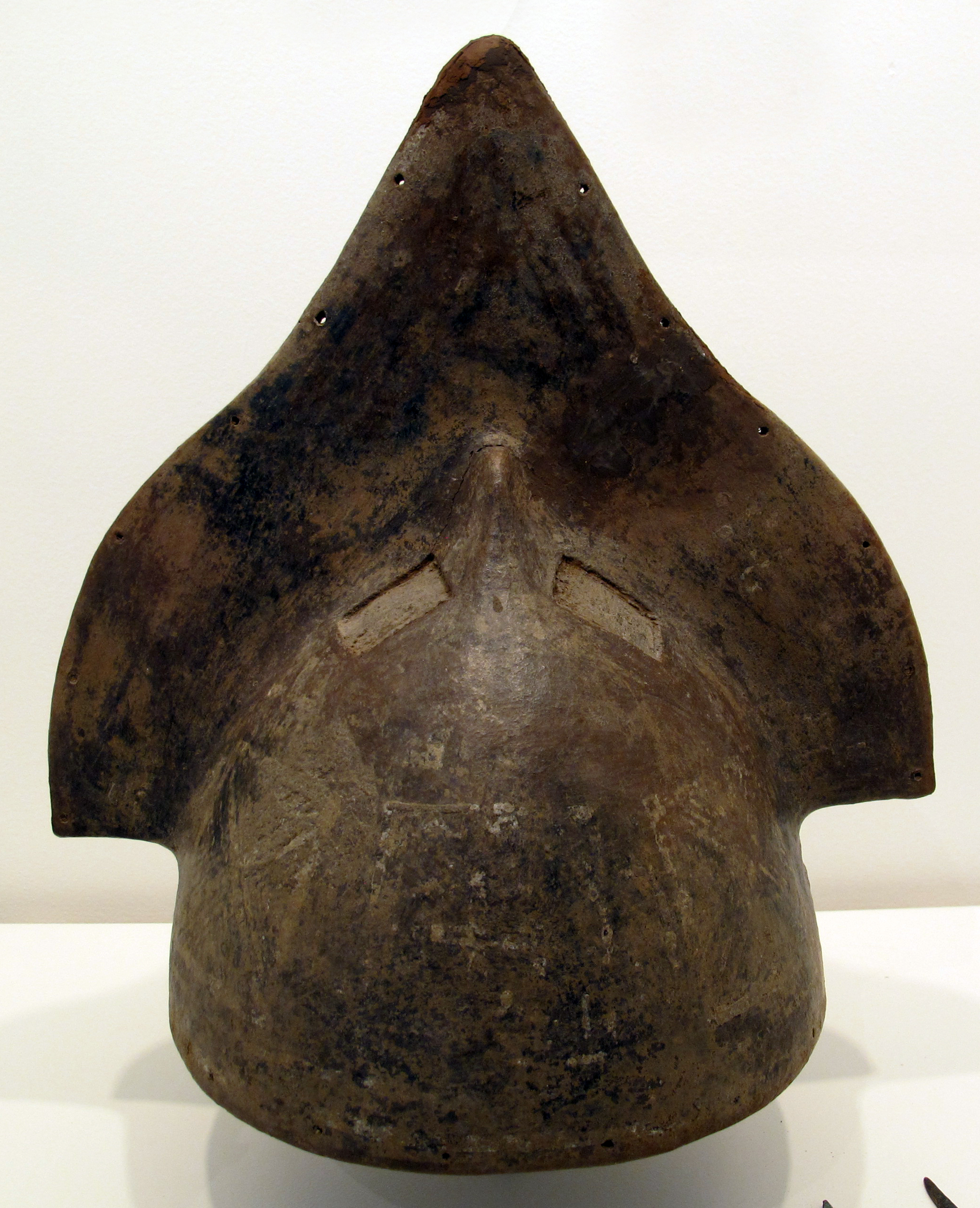 Etruscan antiquities in the Musée d'art et d'histoire de Genève